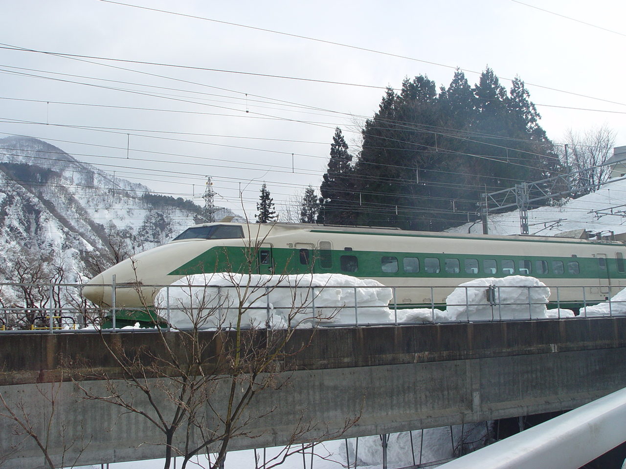 200 series shinkansen train set F8 on the Tanigawa 79 service to Gala-Yuzawa Station, seen close to Gala-Yuzawa